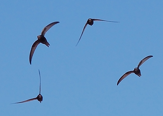 Flock of Common Swift